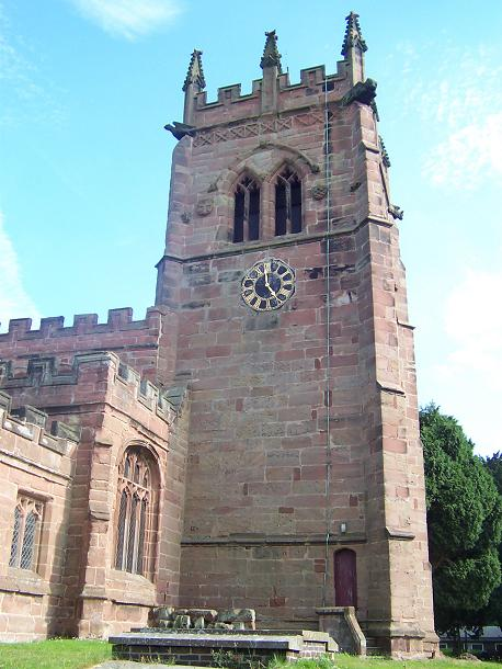 Photograph